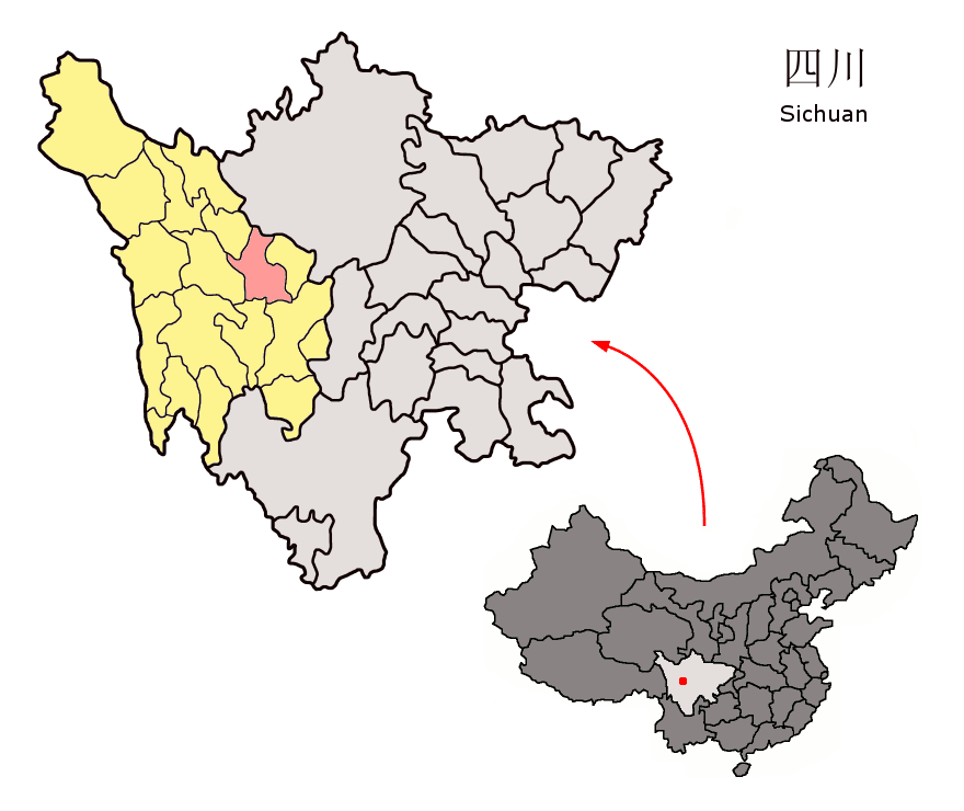 Location of Dawu County (pink) and Garzê Prefecture (yellow) within Sichuan province of China Map drawn in september 2007 using various sources, mainly : Sichuan province administrative regions GIS data: 1:1M, County level, 1990 Sichuan Counties map from